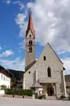 The Parish Church of San Sigismondo - Puster Valley (BZ)